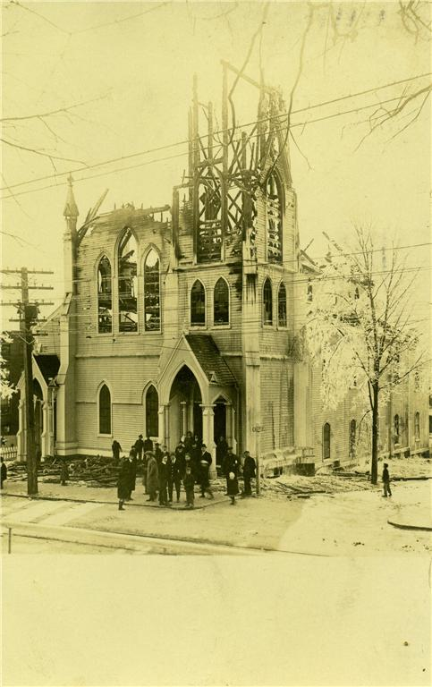 Remains of former Methodist-Episcopal church building after a fire in 1911, from a postcard; eBay store Web page states: "used, divided-back, real photo post card showing the exterior of the old Methodist-Episcopal Church after the destructive fire of 1911. The street sign for 'South St.' can be seen at the corner, just to the right of the front entrance. The church was relocated and a new building constructed in 1913. Today the church is known as the First United Methodist Church of Hudson."